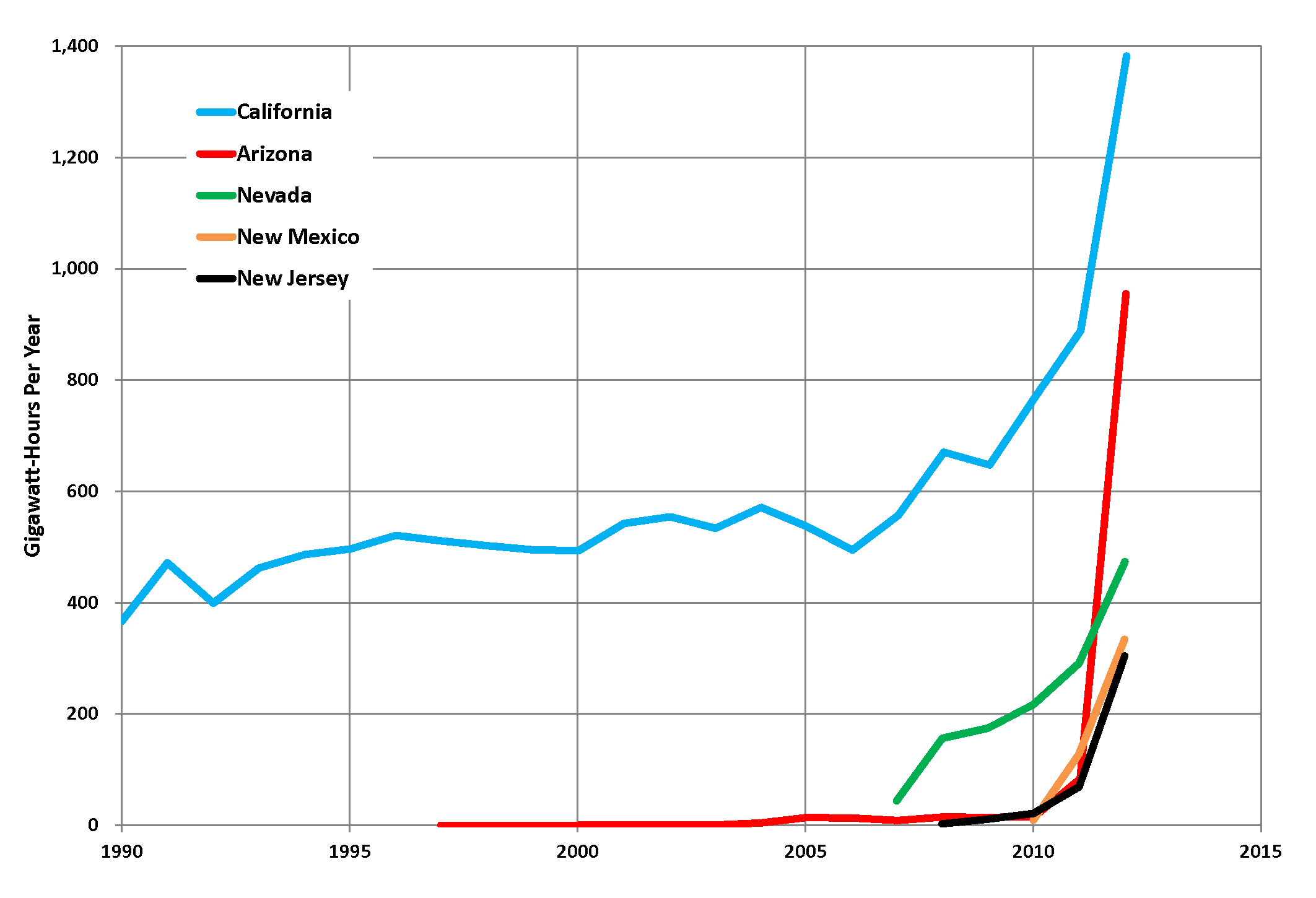 Trends in commercial solar electrical power generation in the top five states,1990-2012 (US EIA data)